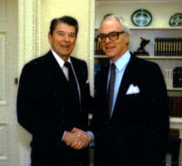 Ronald Reagan and E. Allan Wendt in Oval Office